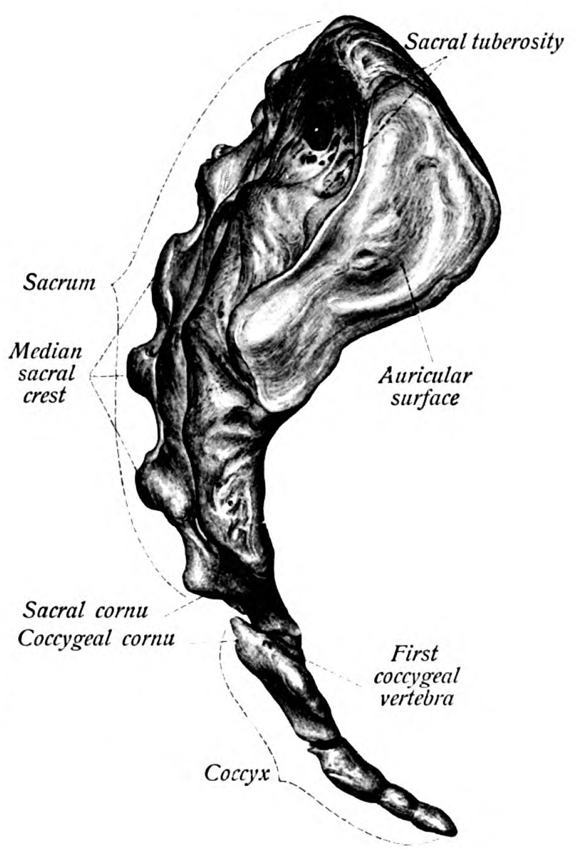 An anatomical illustration from Sobotta's Human Anatomy 1909